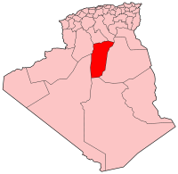 Map of Algeria showing Ghardaia province.